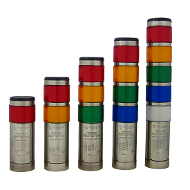 "Command Tower" 251 Series of Indicating Stack Lights, Onyx Industries